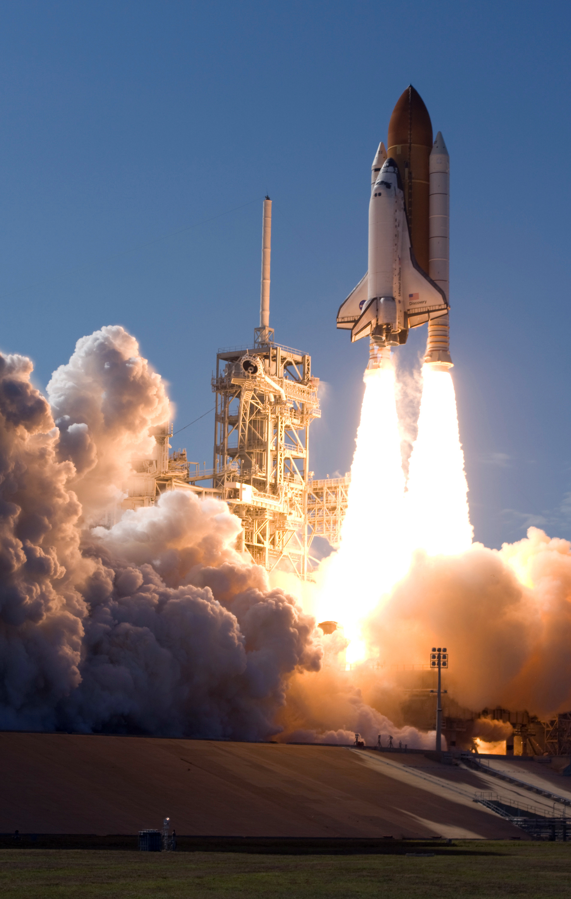 Early evening liftoff for STS-124.